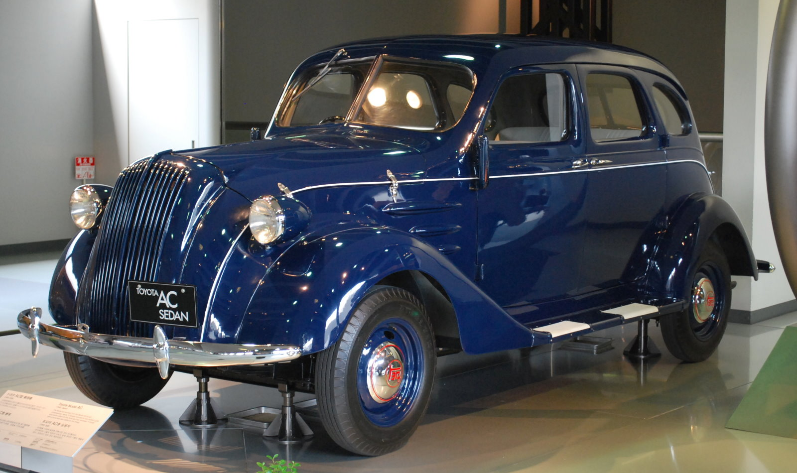 Toyota Model AC (1943)